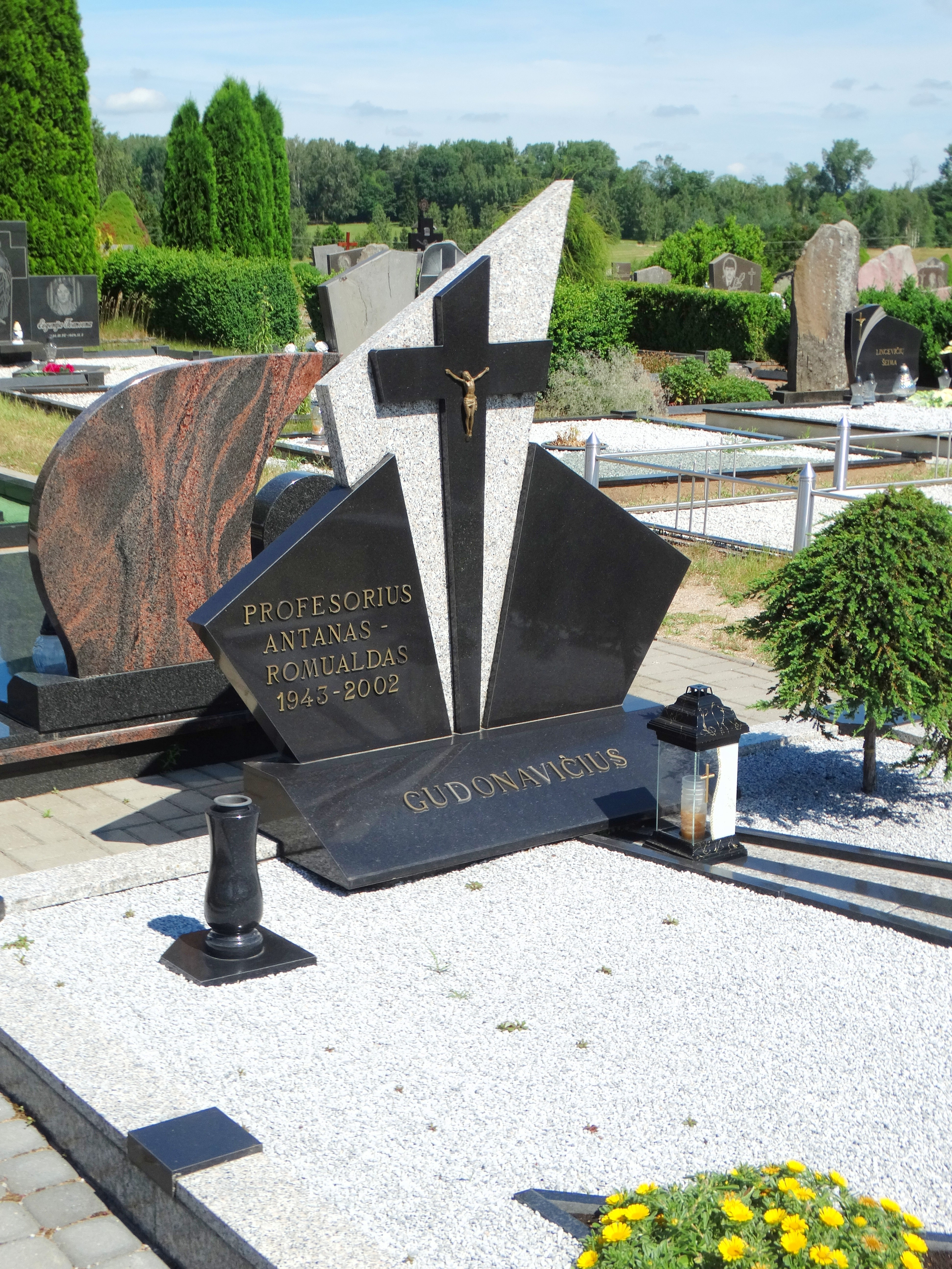 Grave of A. R. Gudonavičius, cemetery in Jonava, Lithuania